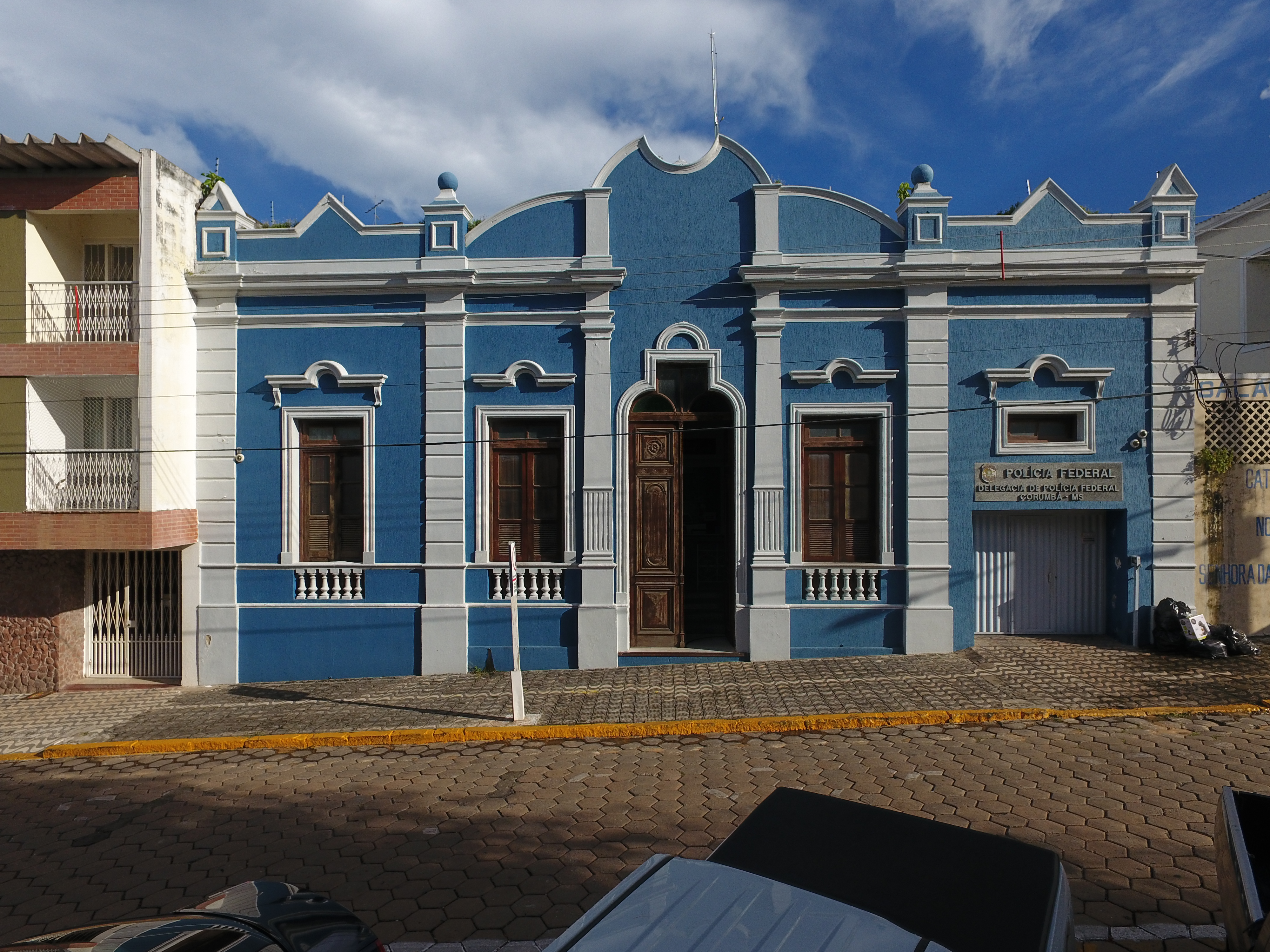 View of the historic building still used by the Policia Federal in front of the Praça da República in Corumbá, Mato Grosso do Sul, Brazil.